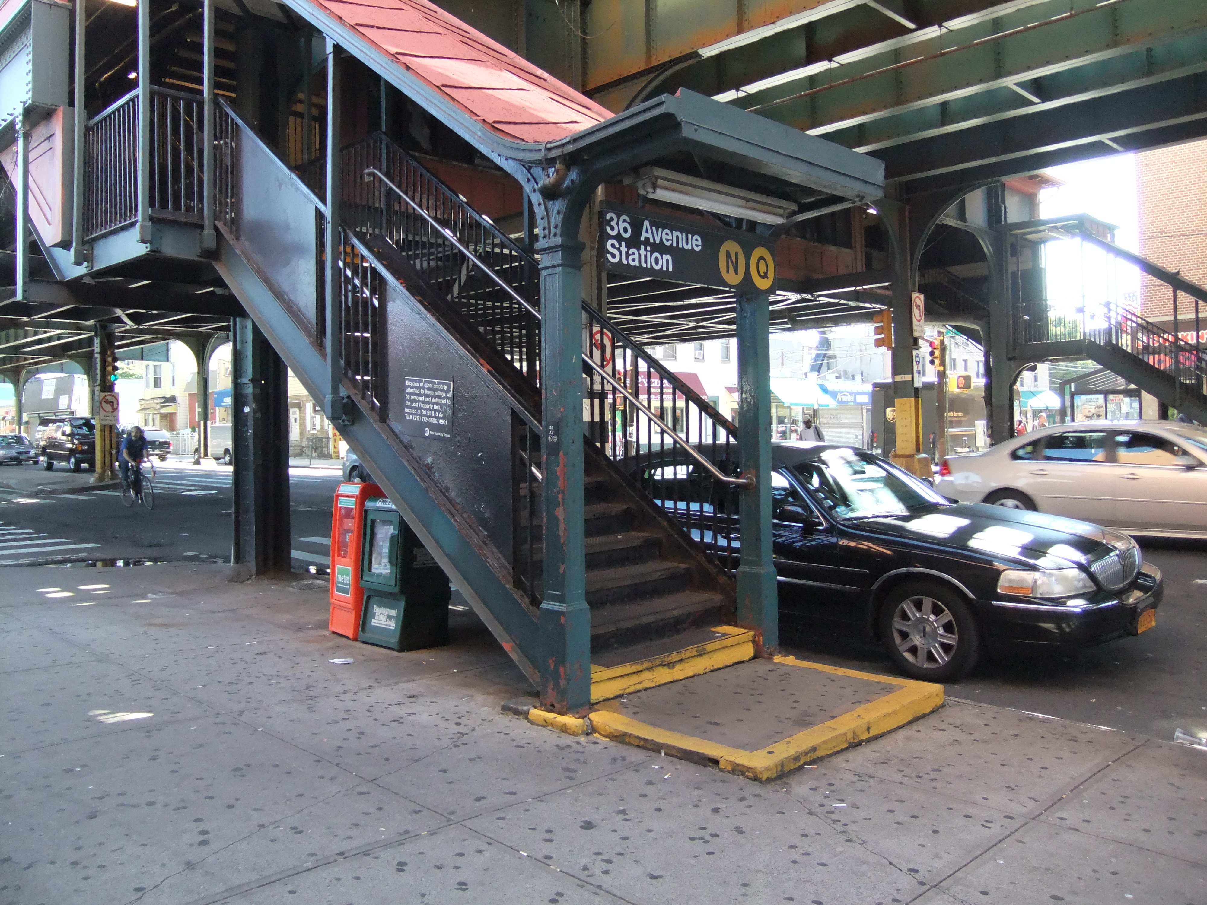 Stair at 36th Avenue and 31st Street to the Astoria Line station.